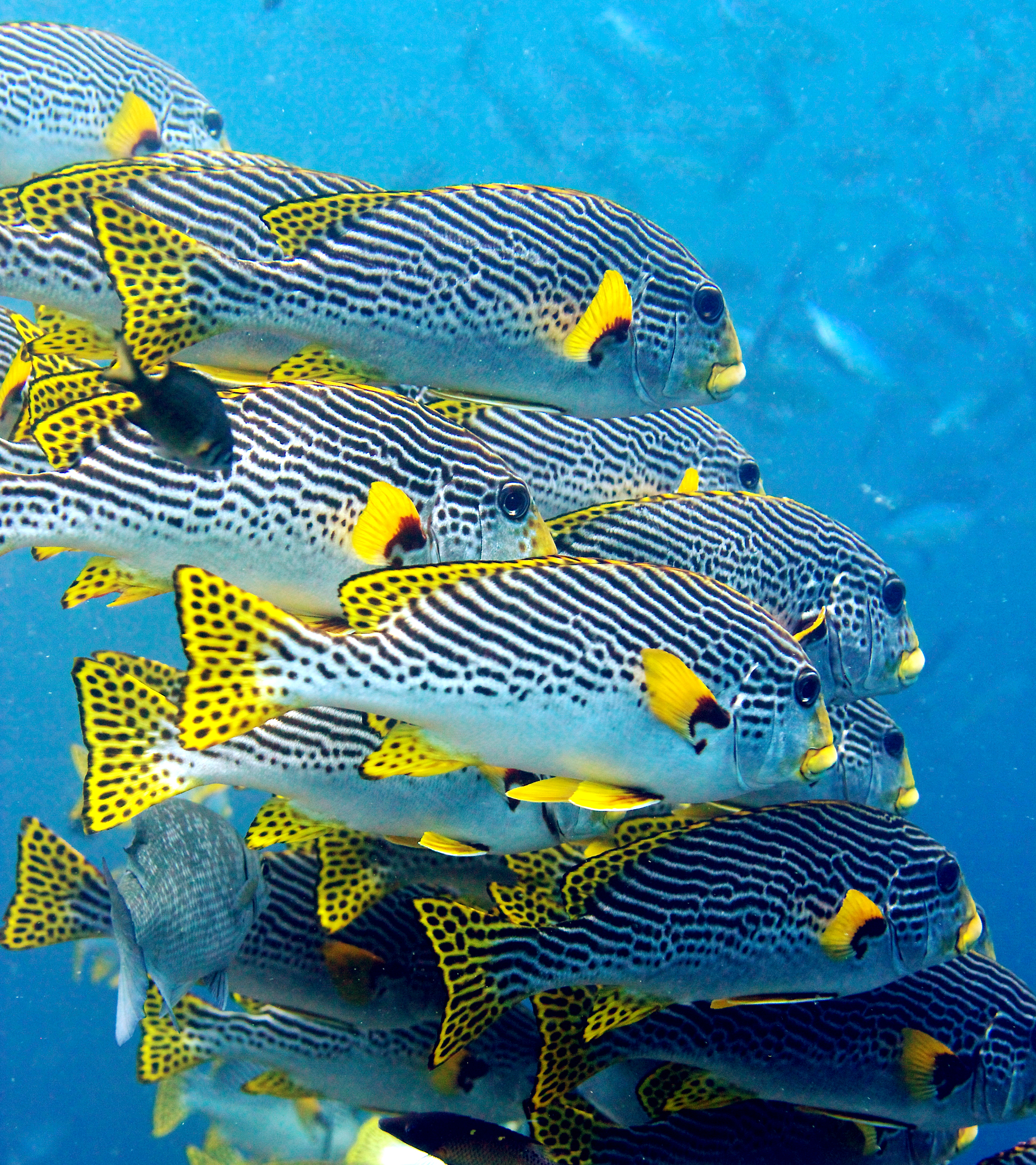 Plectorhinchus lineatus Lined Sweetlips